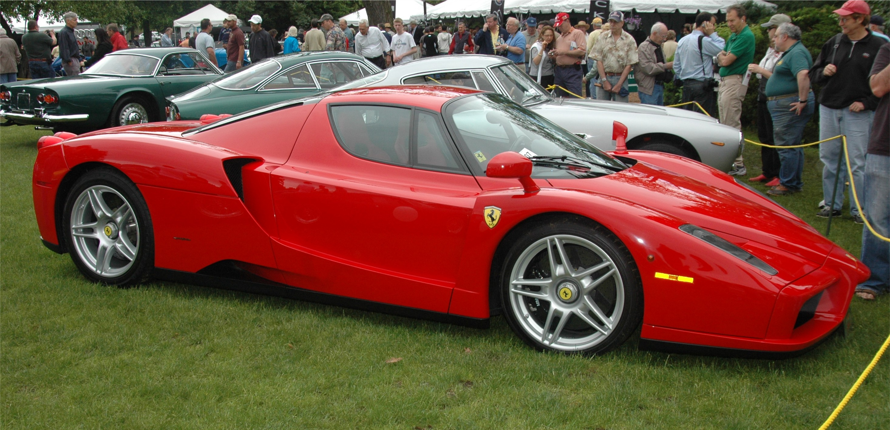 Ferrari Enzo Photographed by Jagvar at the Greenwich Concours d'Elegance in Greenwich, CT on June 4, 2006.